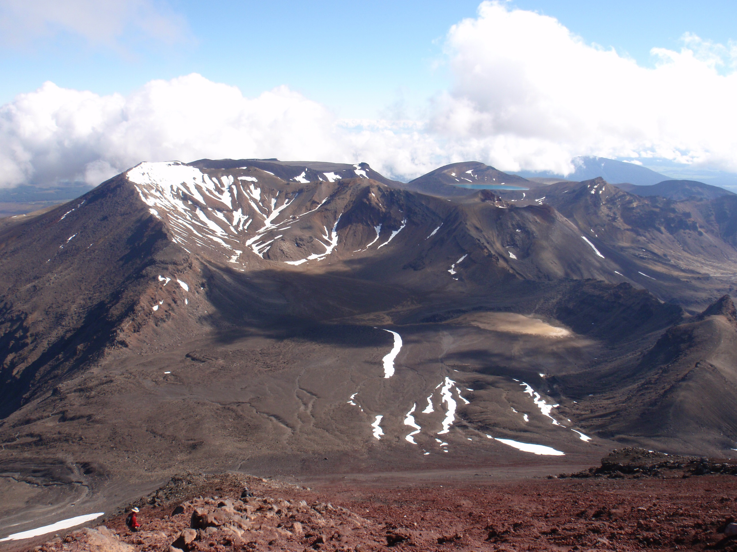 View of the Tongariro volcano and Blue Lake, seen from the top of the Ngauruhoe volcano.